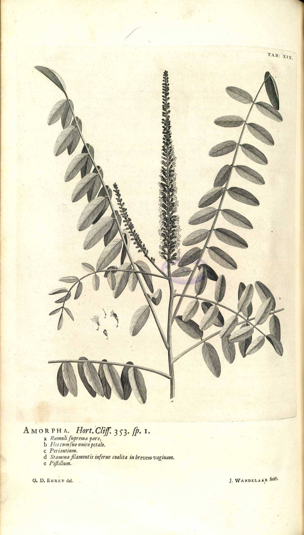 Linnaeus, C. (1738), Hortus Cliffortianus, plate XIX, Amorpha, drawn by Georg Dionysius Ehret and engraved by Jan Wandelaar.